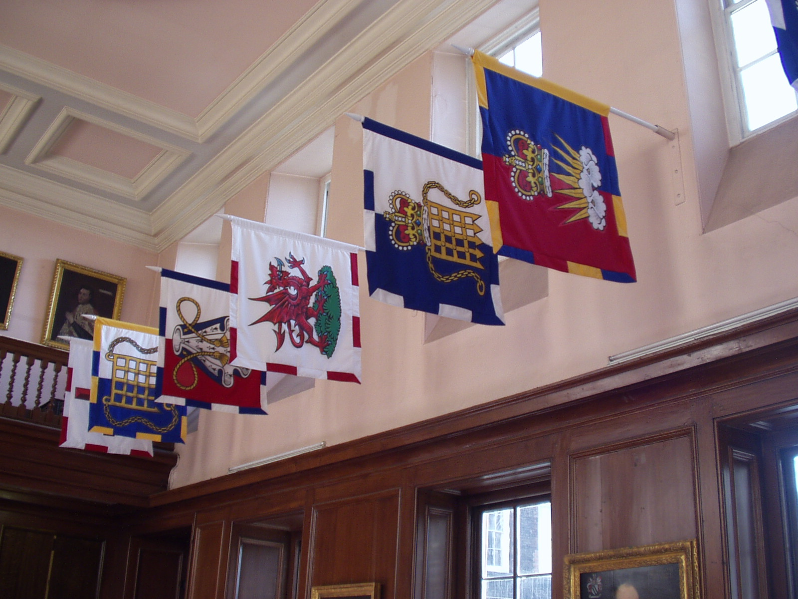 College of Arms in London. Visible in this photograph from left to right are the badges of Rouge Croix Pursuivant, Portcullis Pursuivant, Bluemantle Pursuivant, Rouge Dragon Pursuivant, Somerset Herald, and Windsor Herald (Text by User:Evadb)